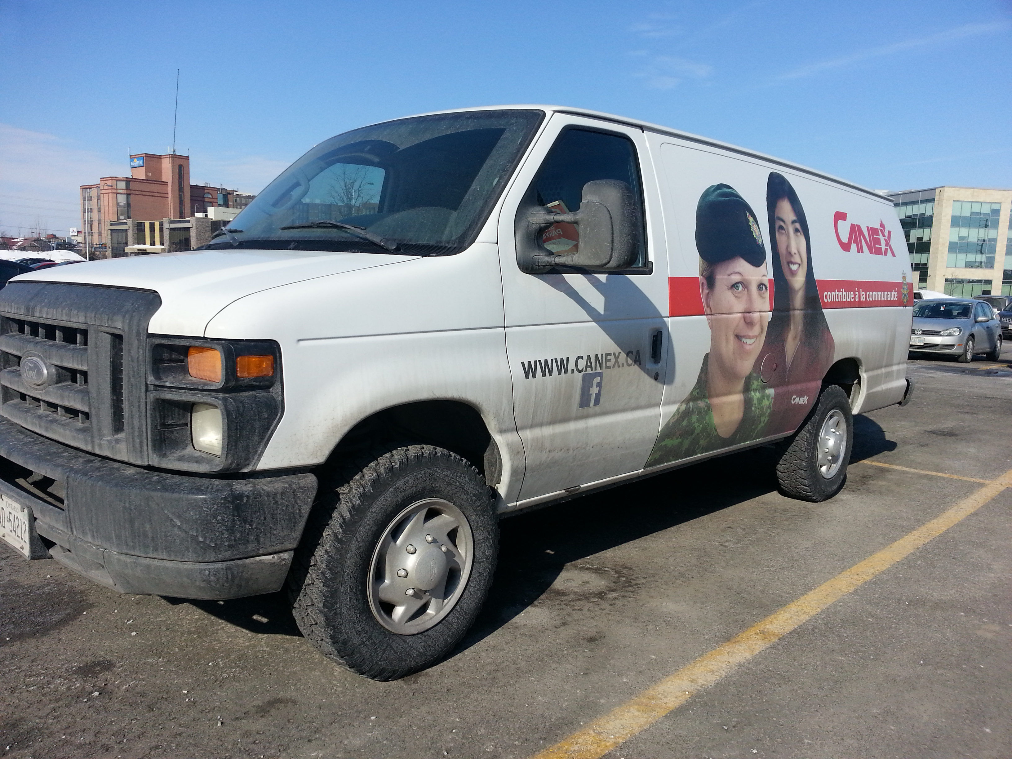 Light delivery vehicle used by CANEX Canadian store in Ottawa